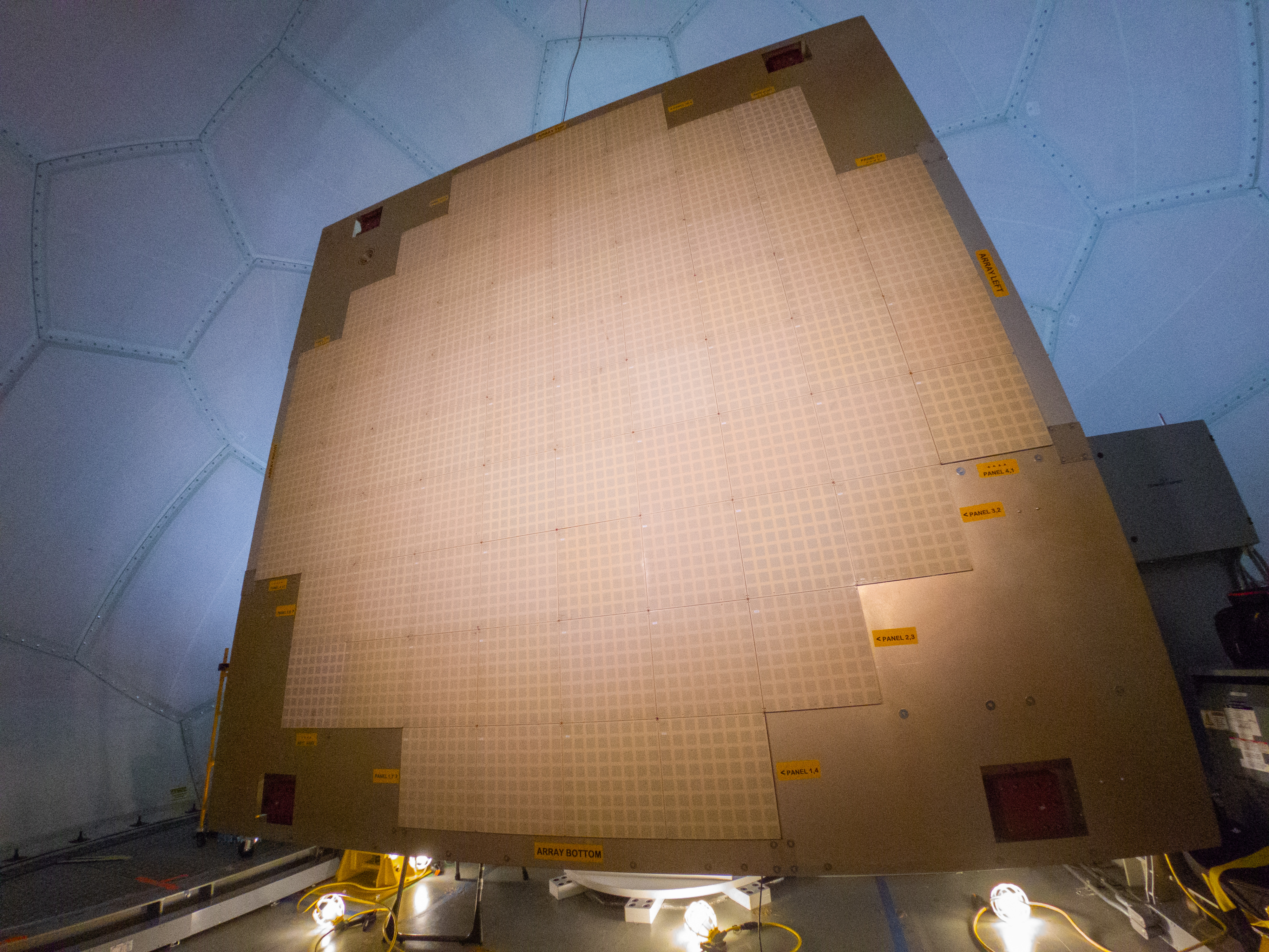 The Advanced Technology Demonstrator (ATD) phased-array radar's flat-panel antenna array after installation on 2018-09-21.